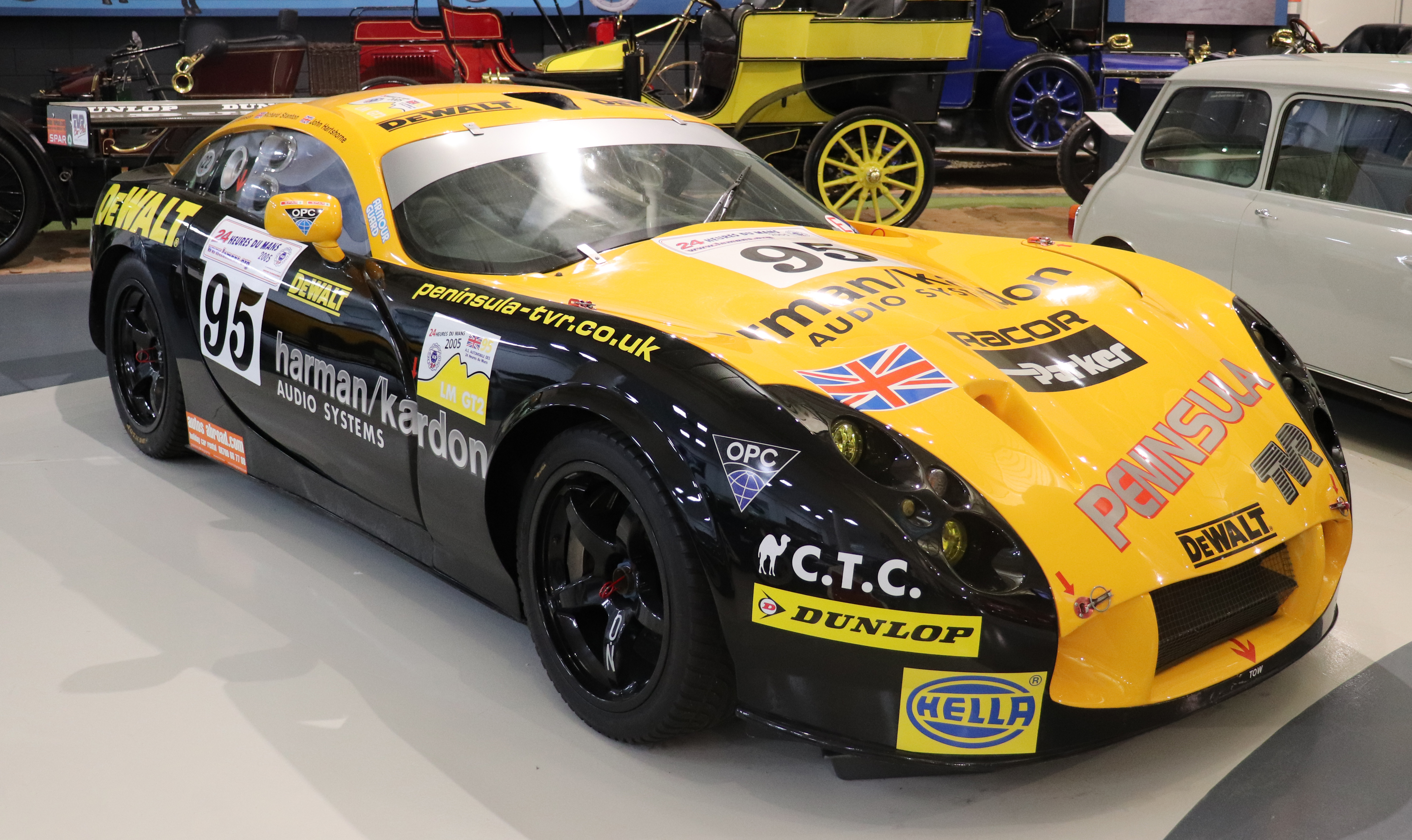 2001 TVR Tuscan T400R 4.0 Front Taken at the British Motor Museum, Gaydon